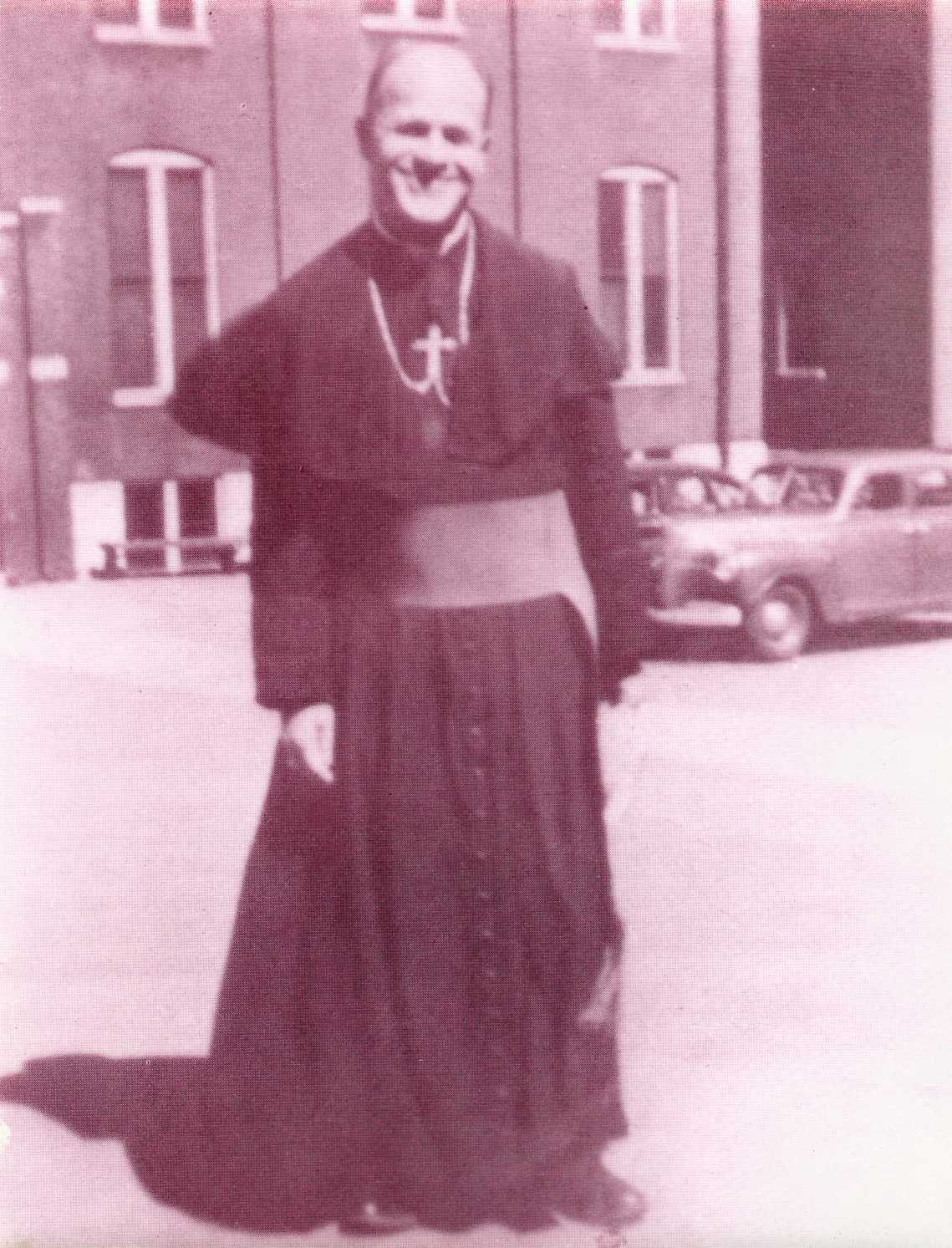 A photo of Bishop Adolph Paschang in Jiangmen, China